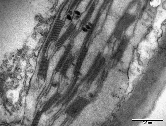 Chloroplast with a magnification of 30000. You can clearly see the grana (thylakoid stacks) here. Image credits: Andreas Anderluh, Bela Hausmann